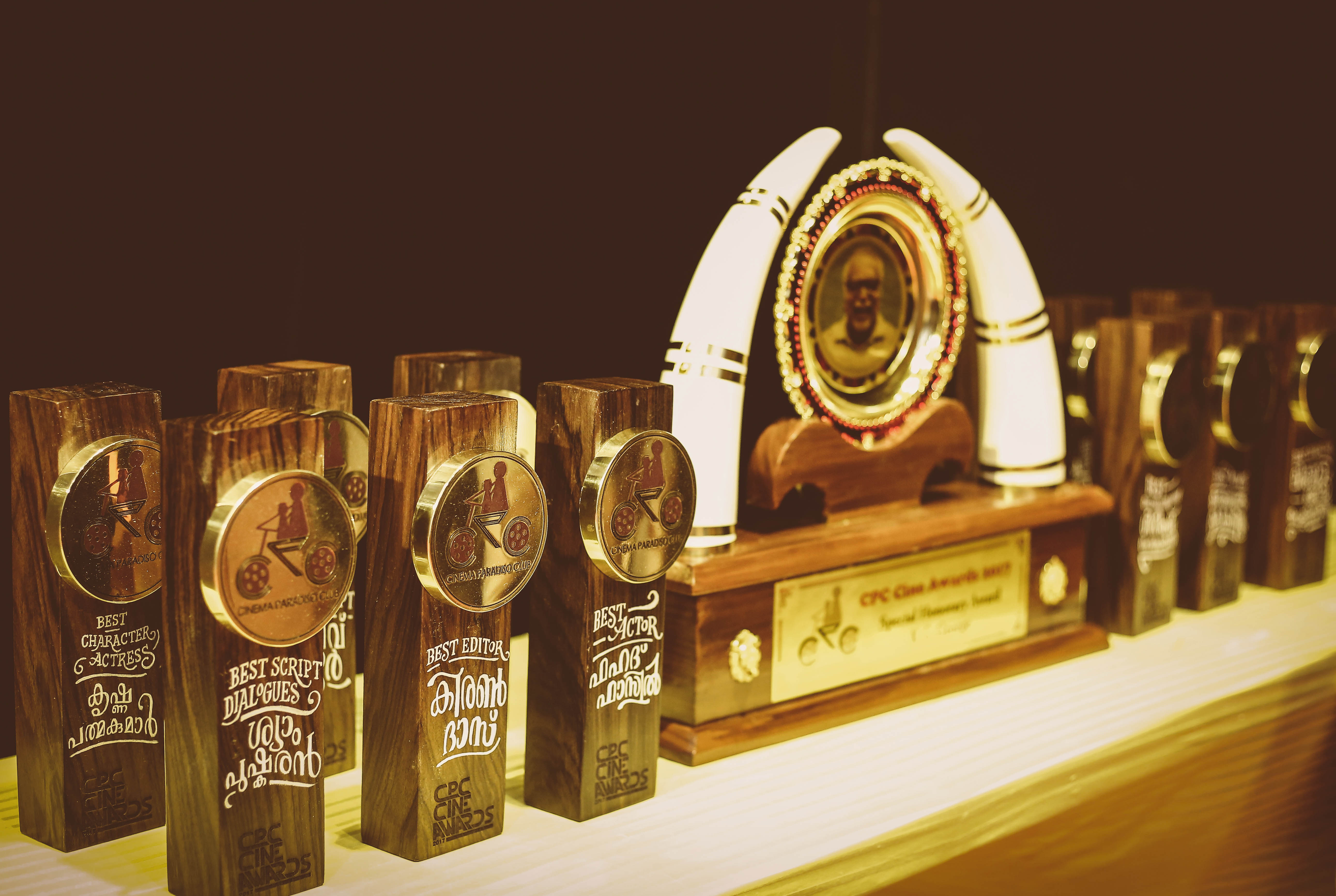 CPC Cine Awards 2017 mementos presented to winners